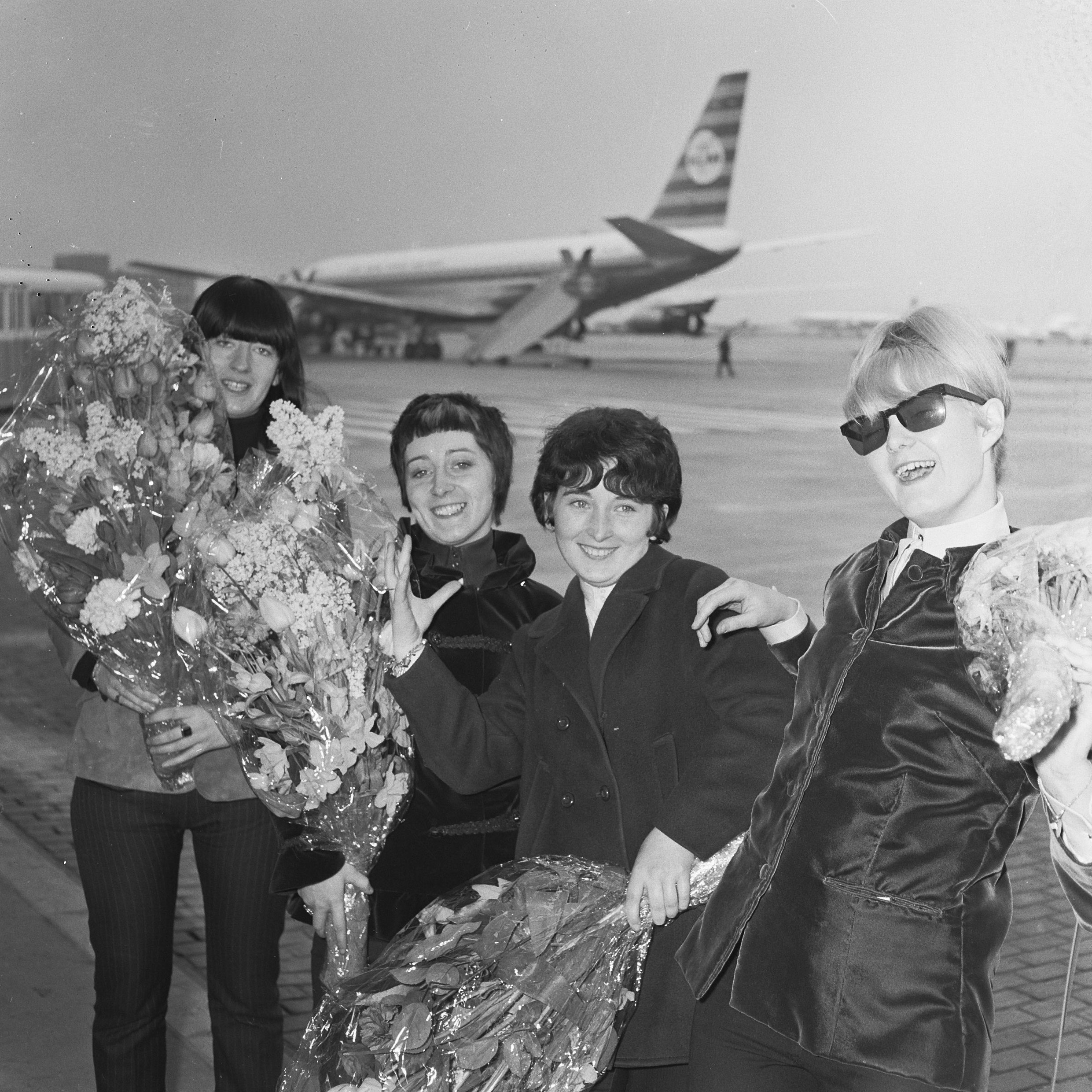 The Liverbirds arriving at Schiphol Airport. Valerie Gell; Mary McGlory; Sylvia Saunders; Pamela Birch